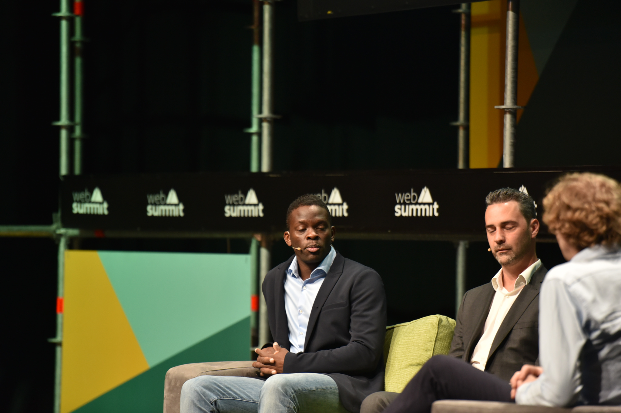 ws (21 of 79)